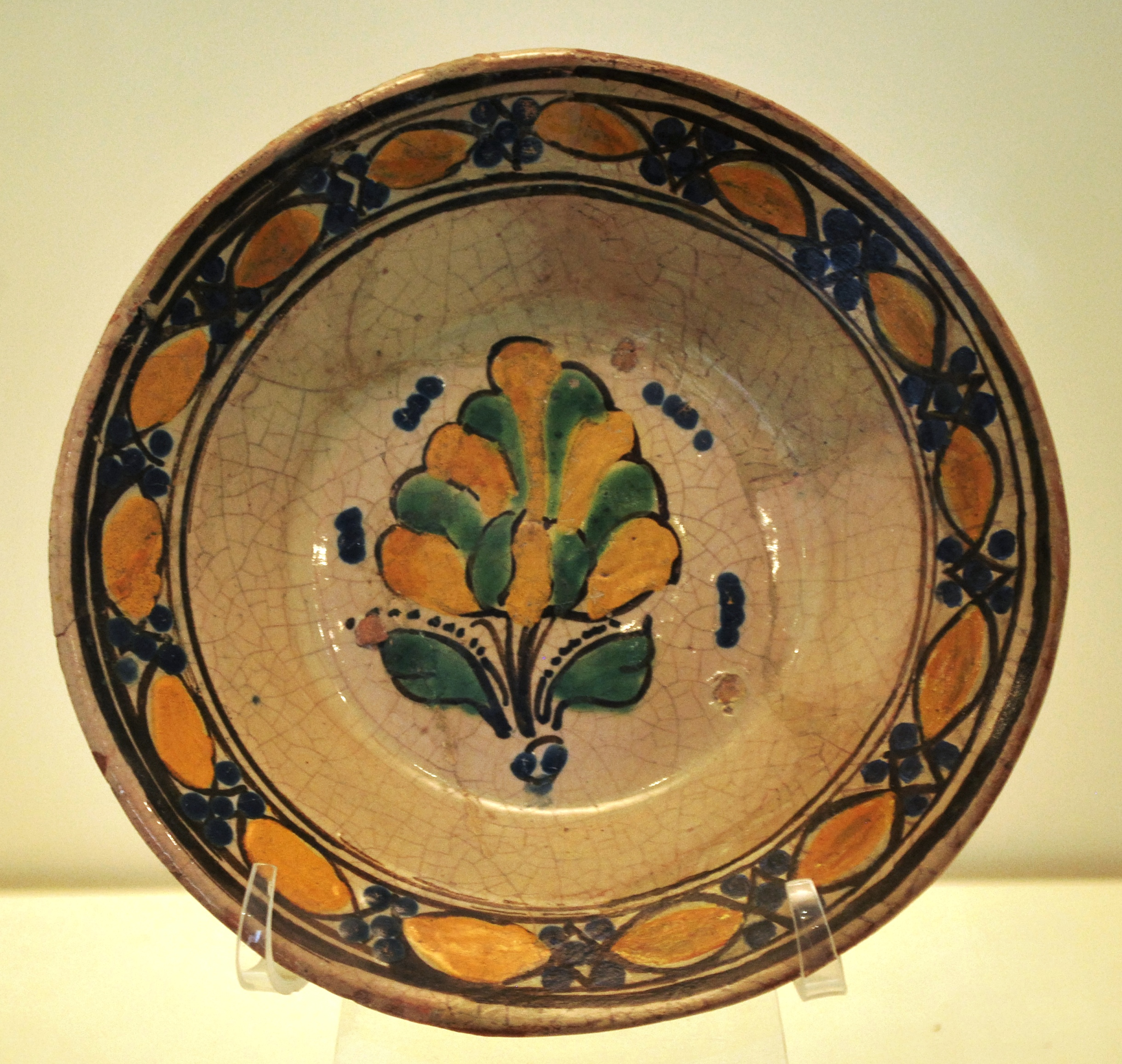 16 or 17th century green/yellow Talavera bowl from Puebla on display at the Museum of Artes Populares in Mexico City